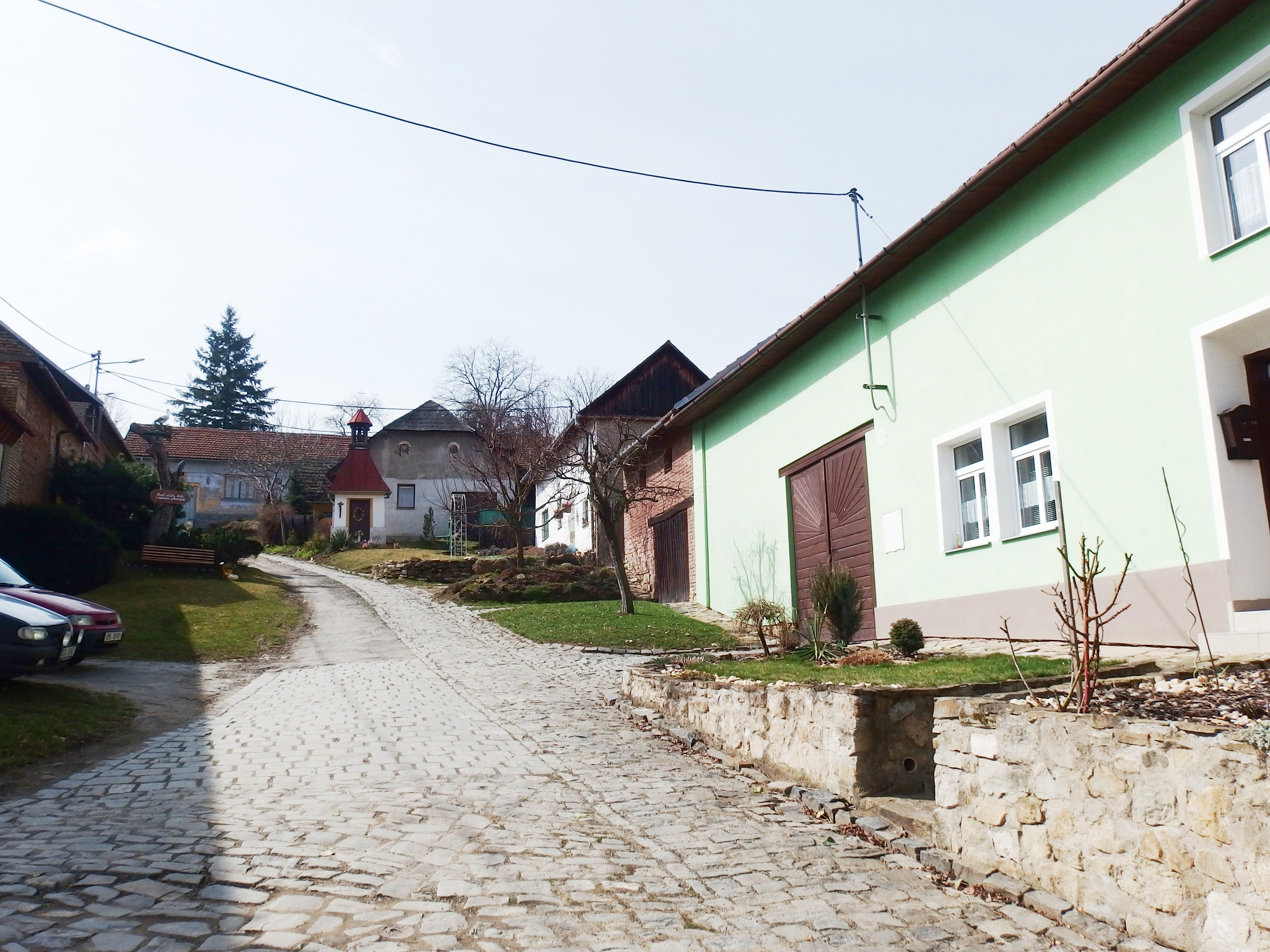 Zdounky, Kroměříž District, Czech Republic, part Lebedov.